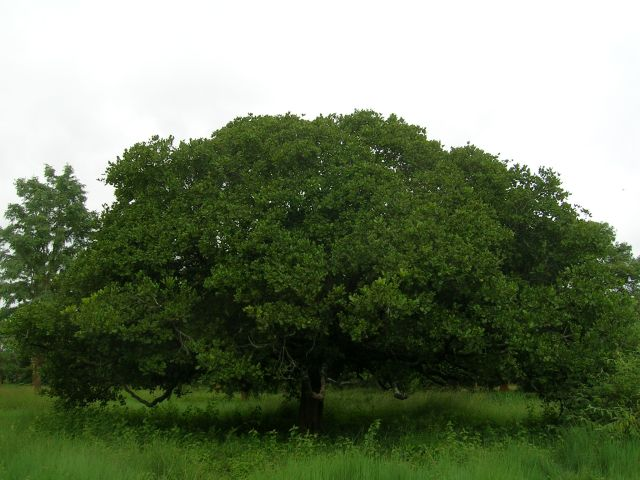 Anacardium occidentale, Cashew tree